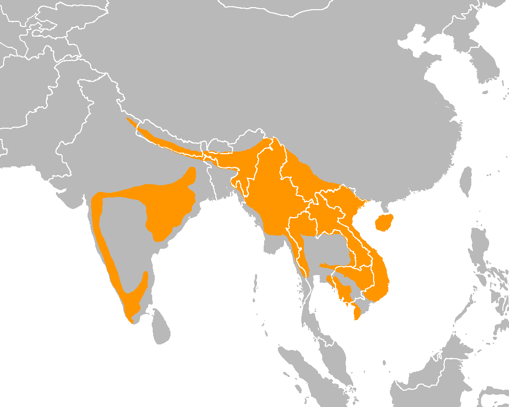 Extant map of blue-bearded bee-eater.